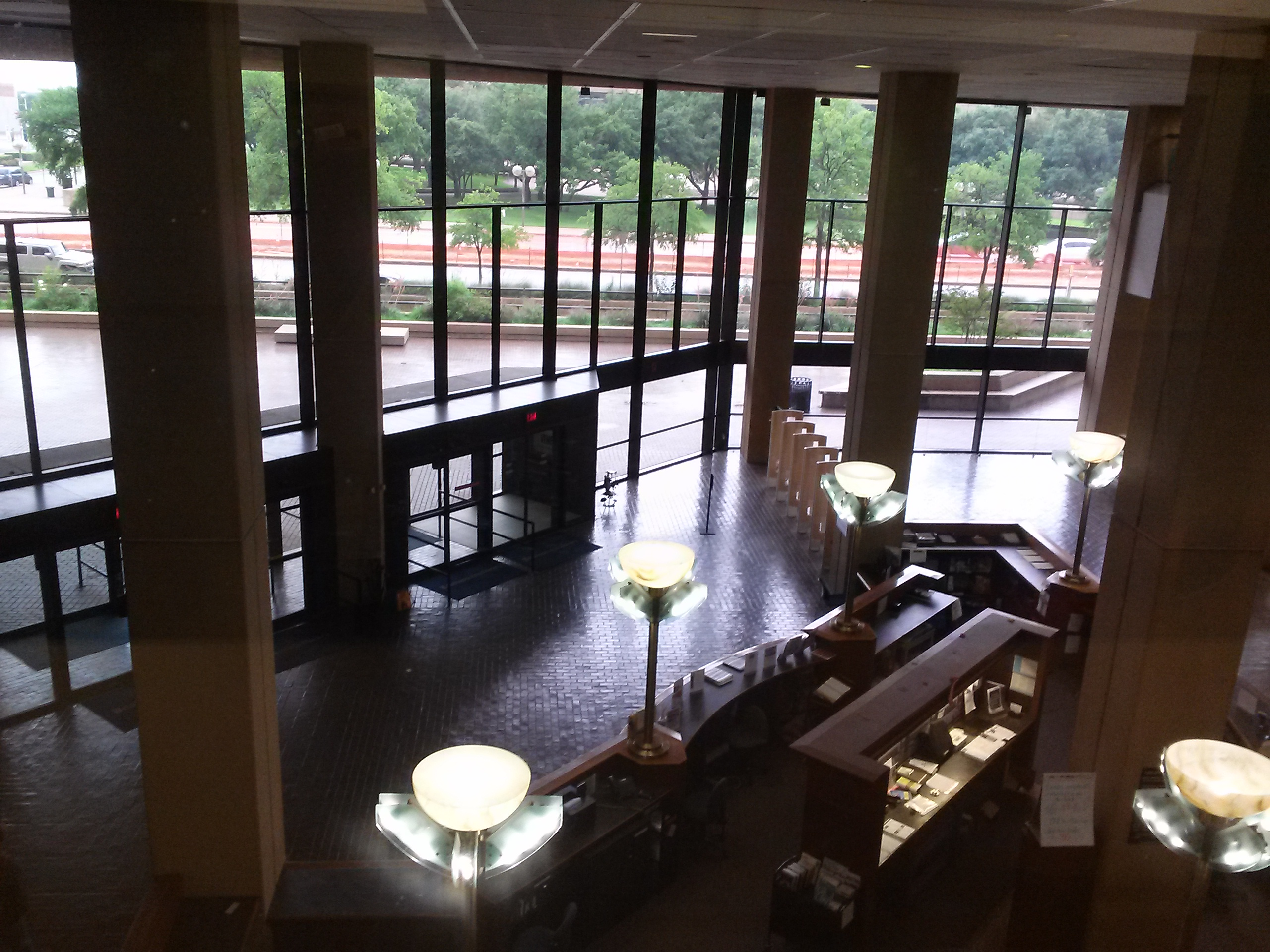 The interior of the J. Erik Jonsson Central Library in Downtown Dallas